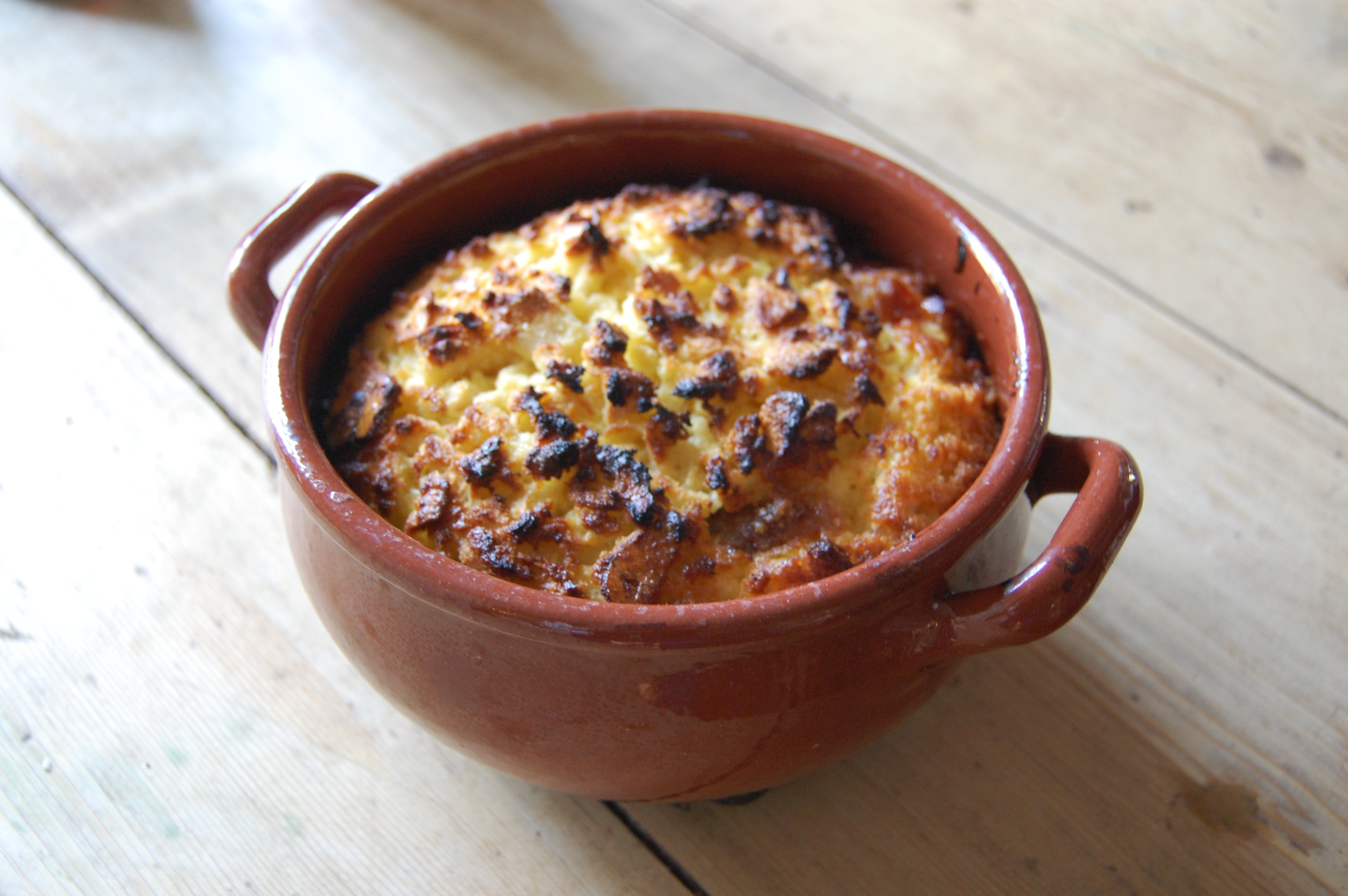 Made from the second recipe for Bakewell Pudding given in Mrs Beeton's 'Book of Household Management', which uses breadcrumbs and no pastry.